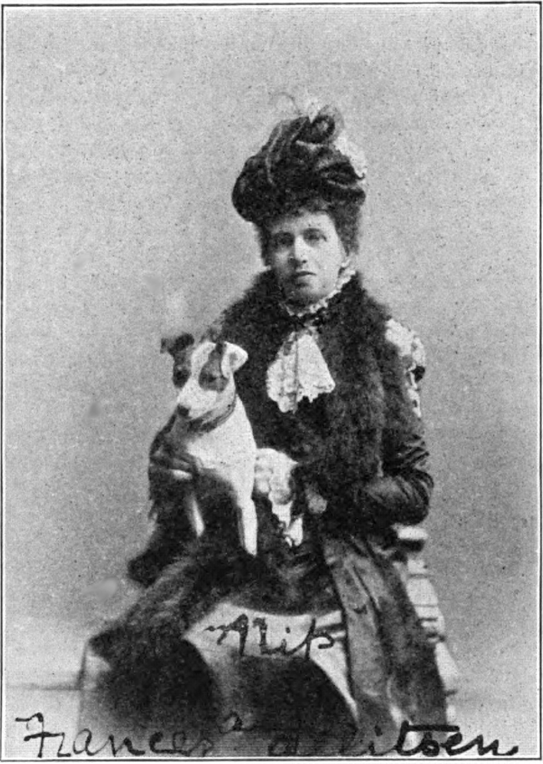 Frances Allitsen, on tour in the United States in 1902